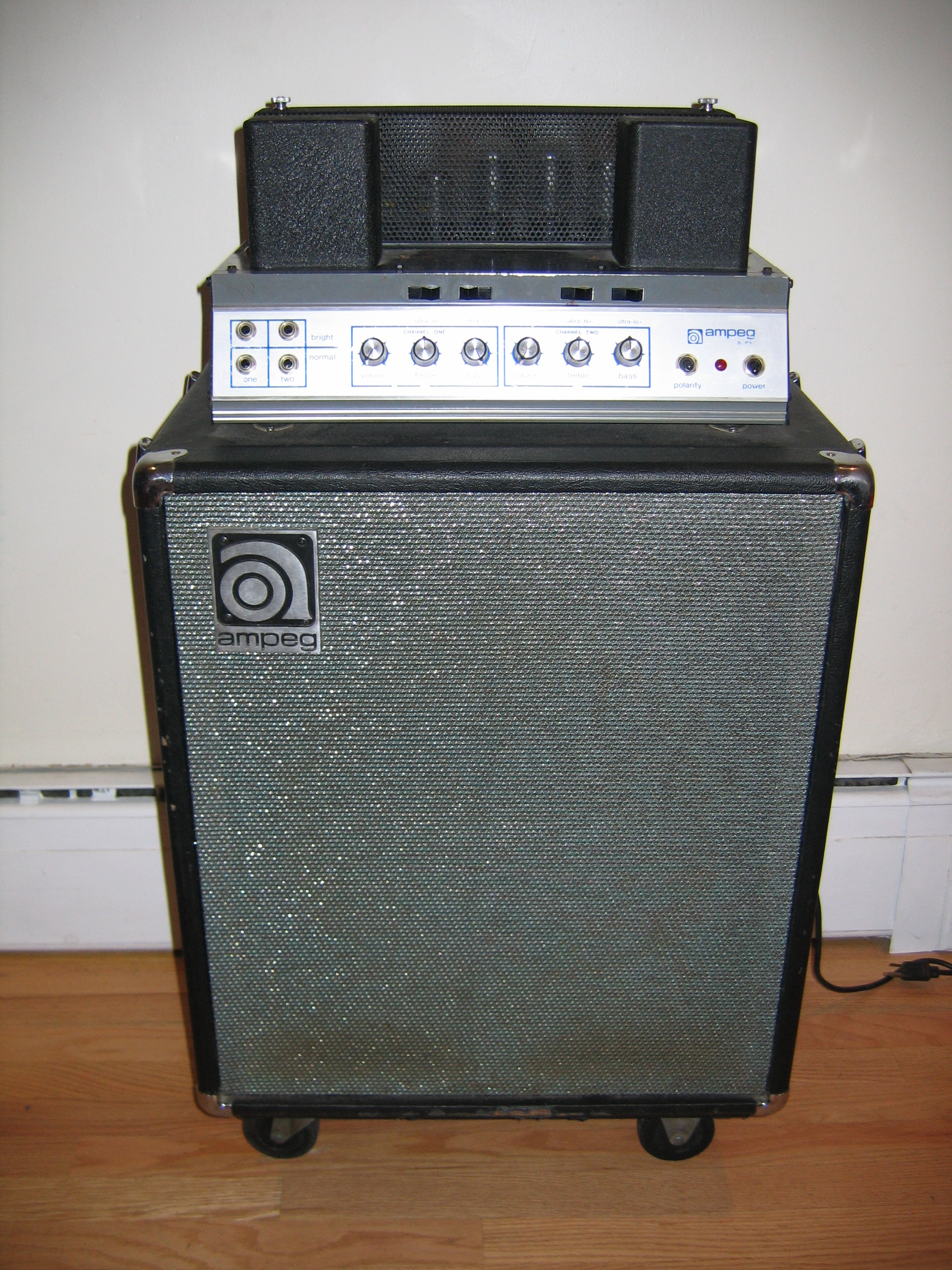 This is photo of an early 1970s Ampeg Portaflex model B-15N.